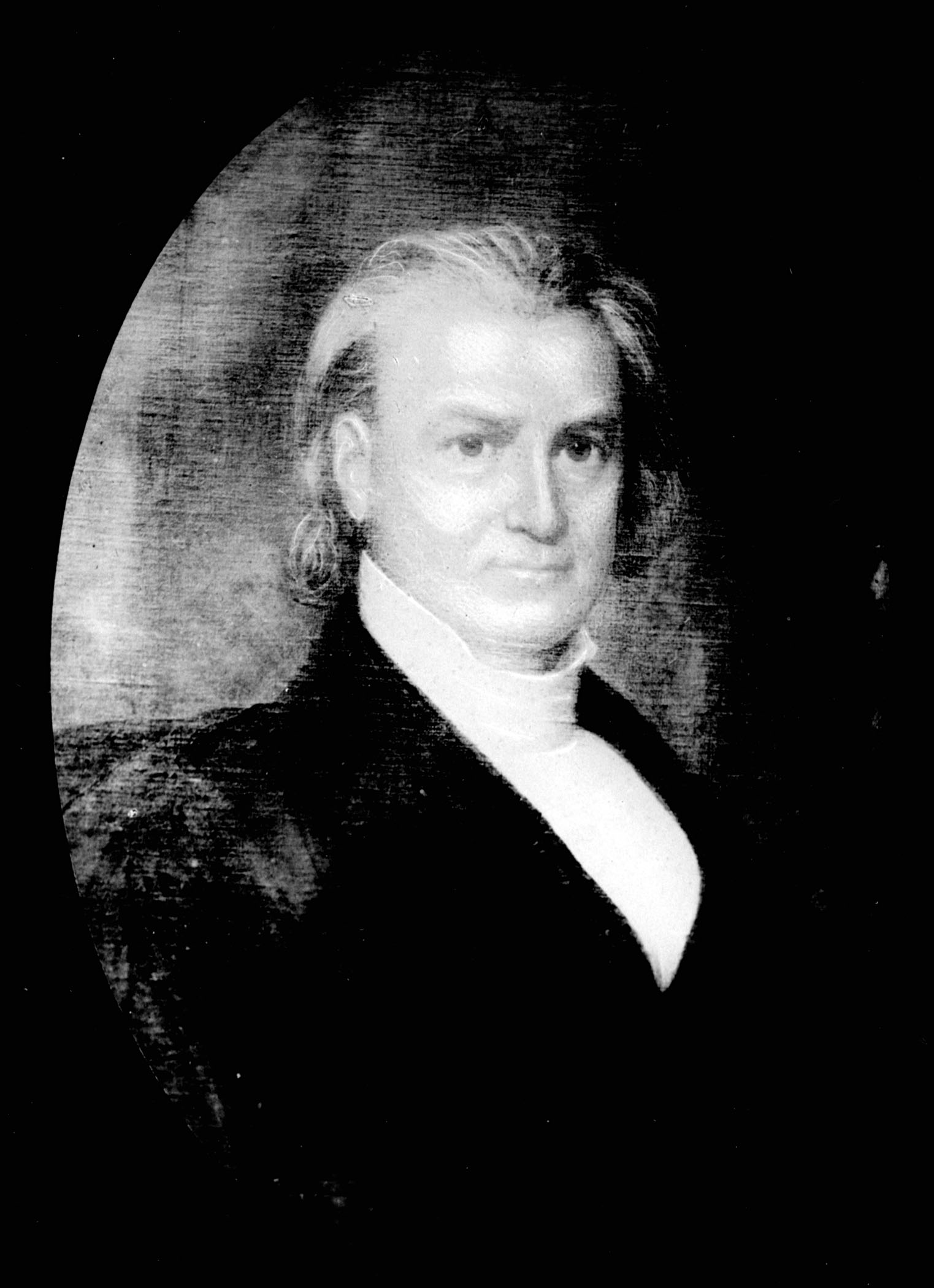 Charles Manly, 1849 - 1851 From the Barden Collection, State Archives of North Carolina, Raleigh, NC.